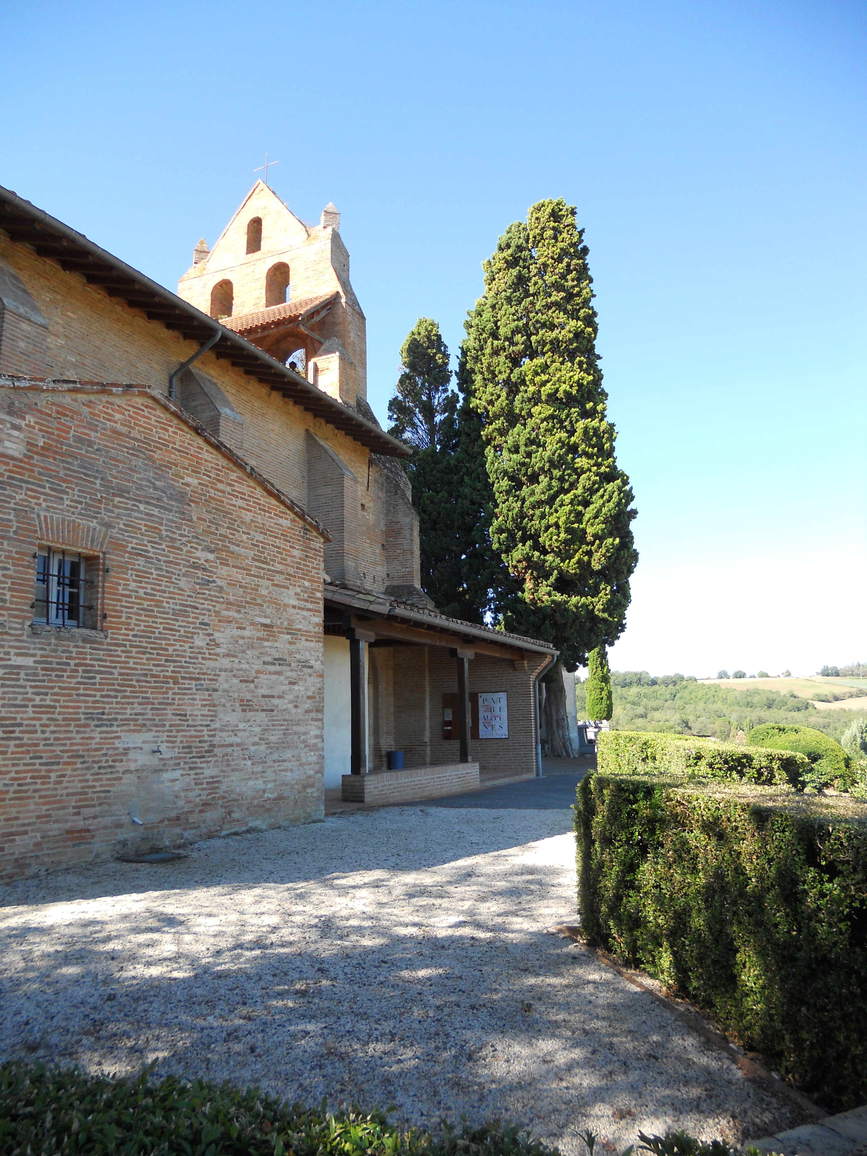 Church of Pompertuzat .